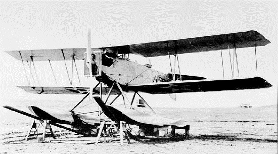 Aeromarine AS-2